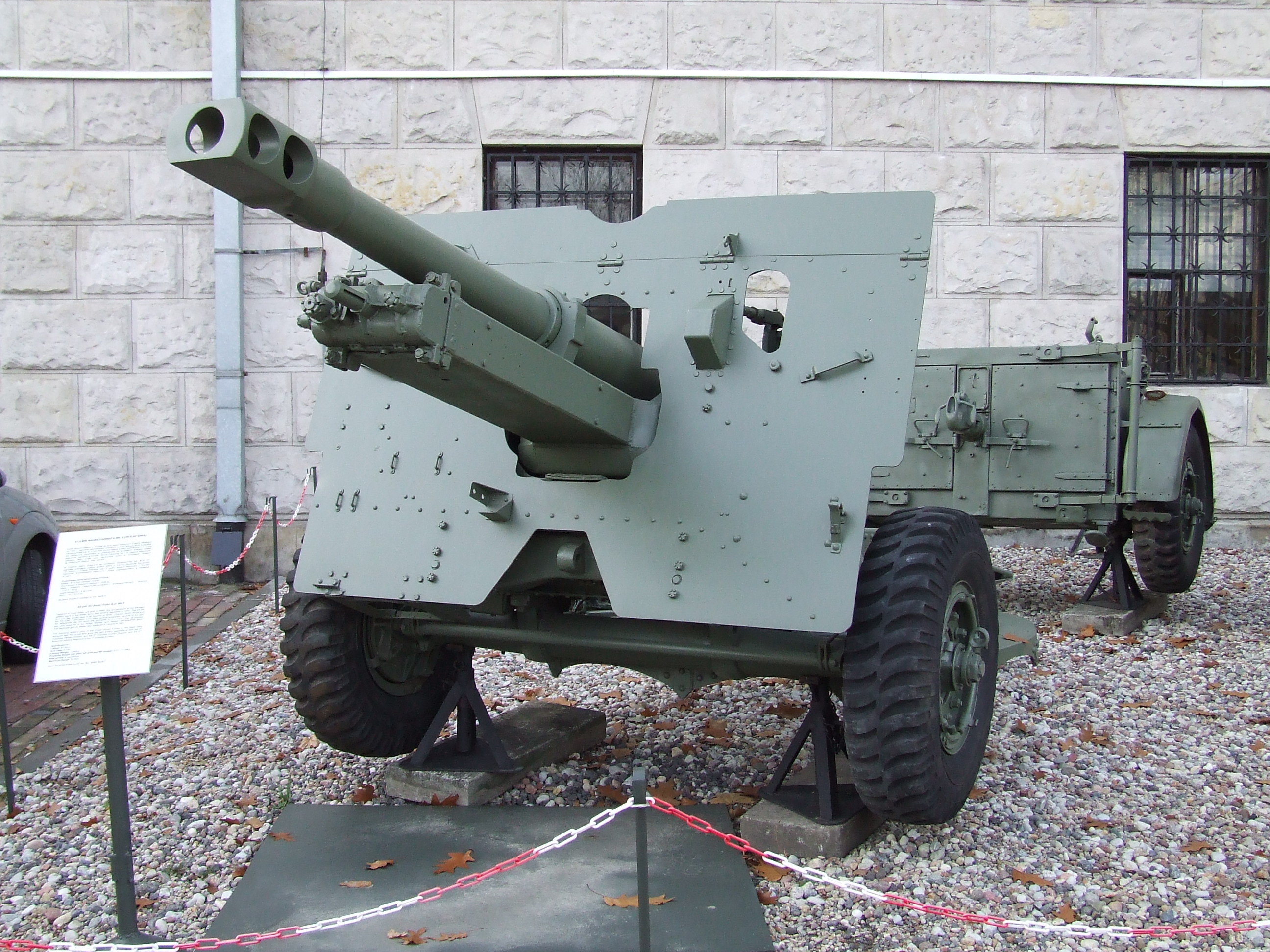 25-pdr Gun-Howitzer in the Polish Army Museum, Warsaw